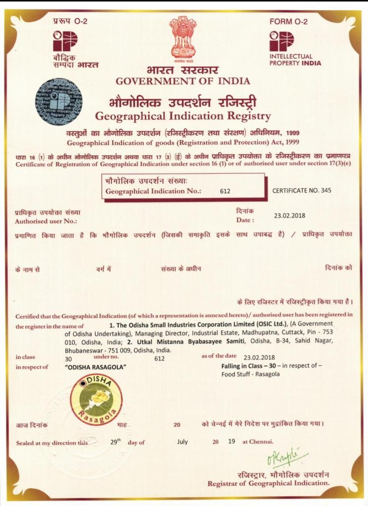 Tweet Text: Happy to share that #Odisha Rasagola has received GI Tag in Geographical Indication Registry. This mouthwatering culinary delight made of cottage cheese, loved by Odias across the world, is offered to Lord Jagannath as part of bhog since centuries OdishaRasagola